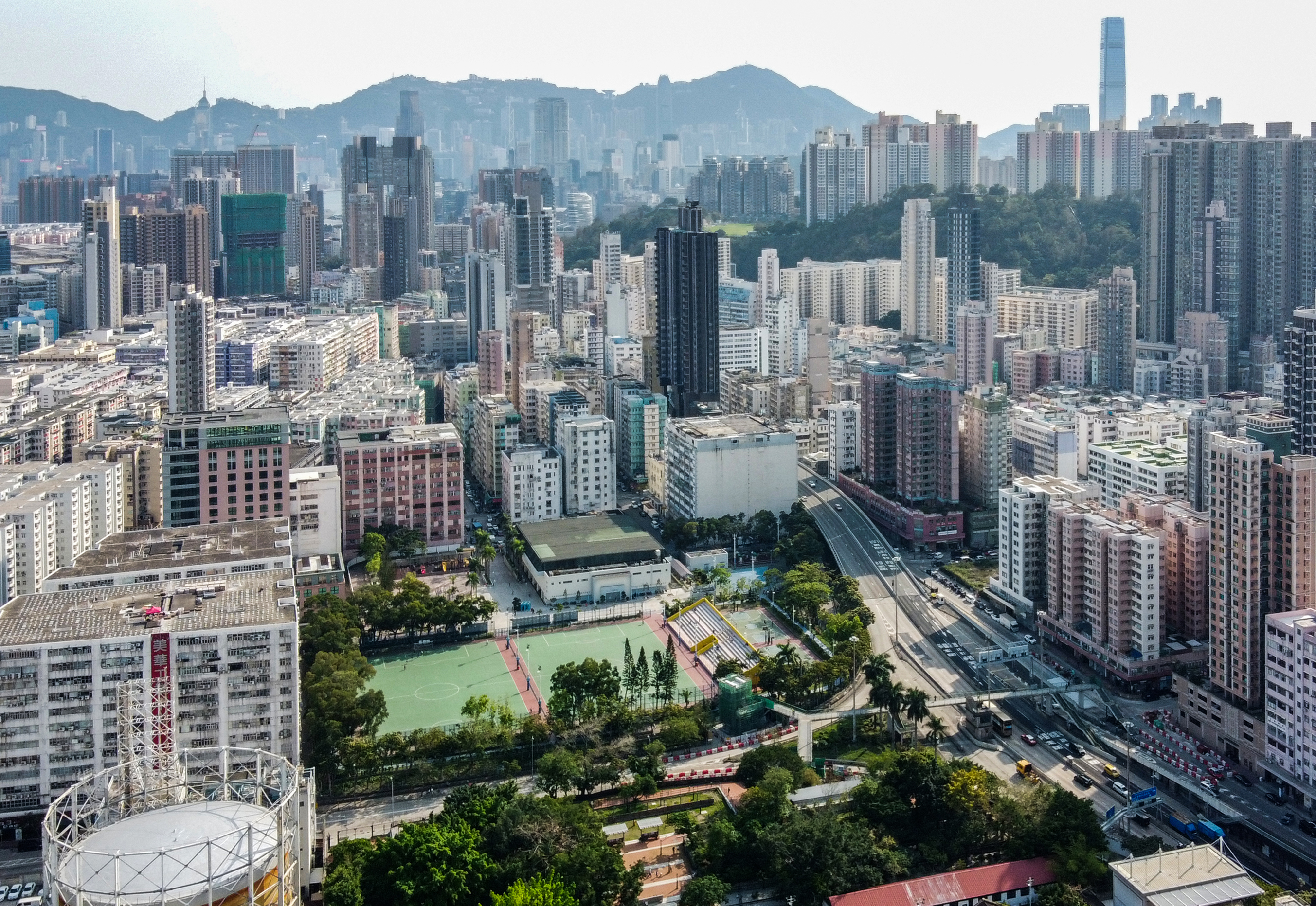 To Kwa Wan Recreation Ground aerial view